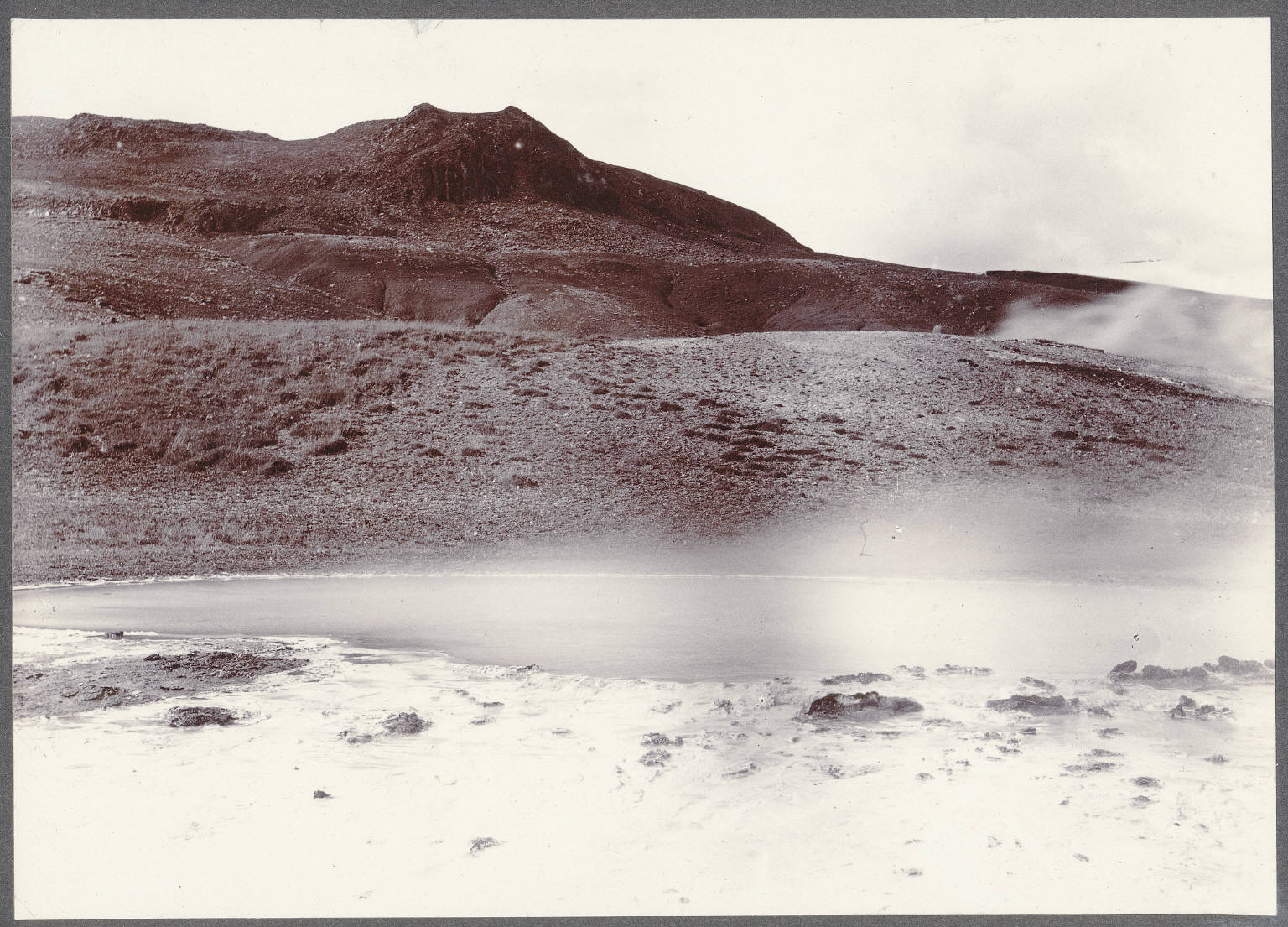 Collection: Icelandic and Faroese Photographs of Frederick W.W. Howell, Cornell University Library Title: Blesi (up) and Laugarfjall. Date: ca. 1900 Place: Blesi (Haukadalur, Iceland : Geyser) Medium: collodion print Repository: Fiske Icelandic Collection, Rare & Manuscript Collections, Cornell University Library Accession: 1923.2.29 URL: Persistent URI: There are no known U.S. copyright restrictions on this image. The digital file is owned by the Cornell University Library which is making it freely available with the request that, when possible, the Library be credited as its source. We had some help with the geocoding from Web Services by Yahoo!